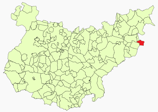 Baterno